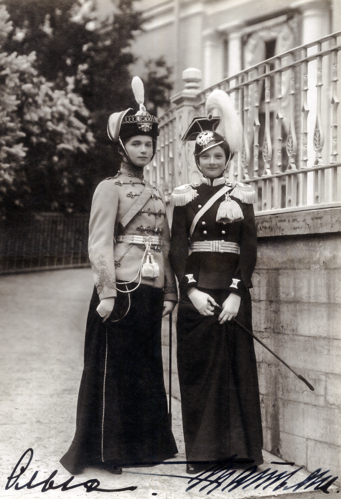 Grand Duchesses Olga and Tatiana. 1913. Grand Duchesses Tatiana, in the 8th Voznesensky Regiment uniform, and Olga in 3rd Hussar Elisavetgrad Regiment military uniform. 1913.